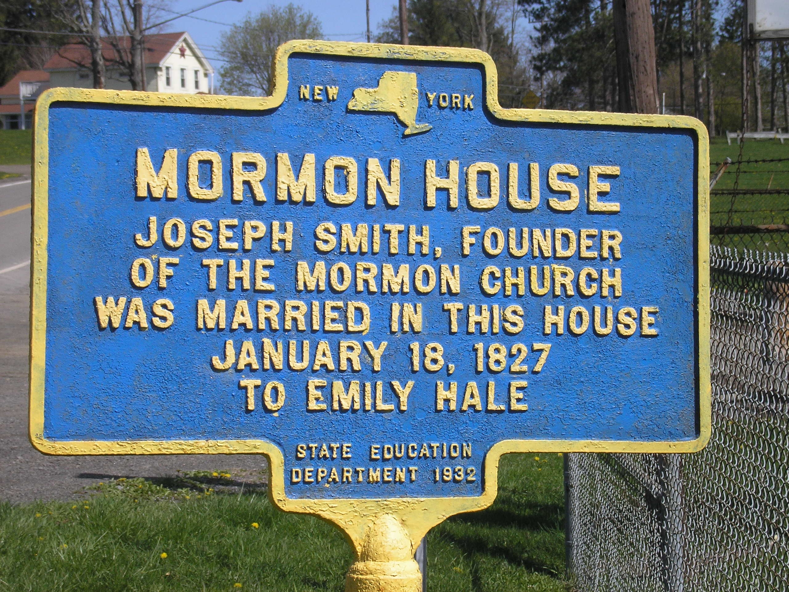 Historic marker of the house of Joseph Smith, the founder of the Mormon Church. Joseph married Emma Hale in this house January 18, 1827.